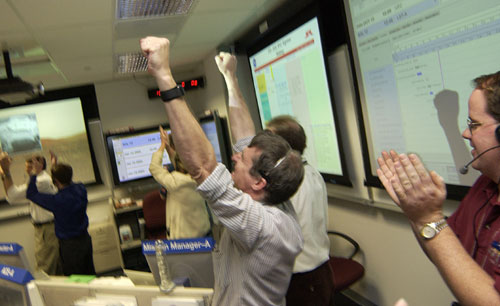 Dr. Steve Squyres, principal investigator for the science instruments on both Mars Exploration Rovers reacts to the images of Spirit leaving its lander. Pictured on the far right is the Mars Exploration Rover project manager, Richard Cook